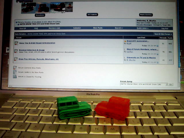 2 examples of R&L Cereal Toy Snow Tracs